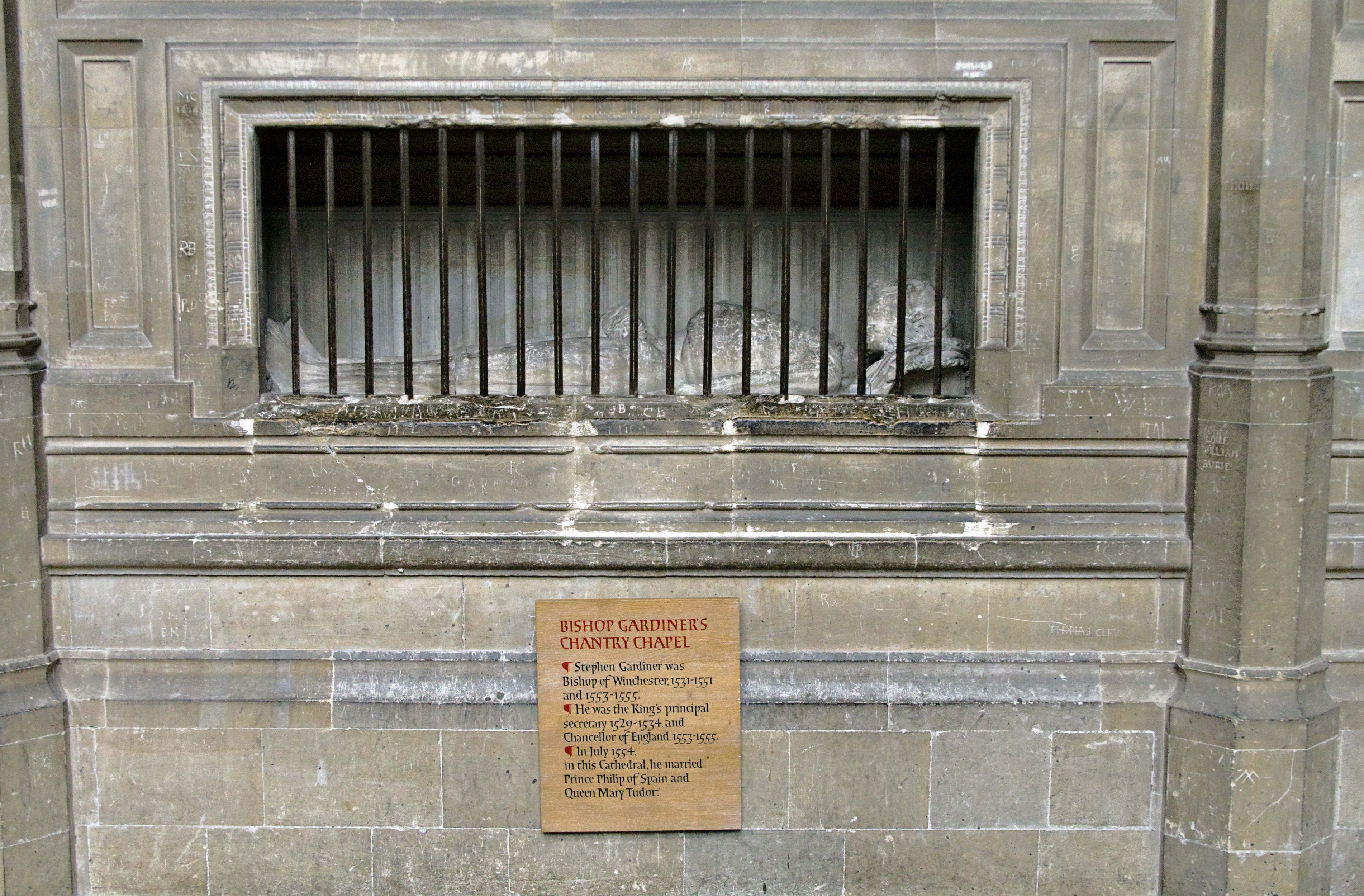 Chantry tomb of Stephen Gardiner, Bishop of Winchester, in Winchester Cathedral